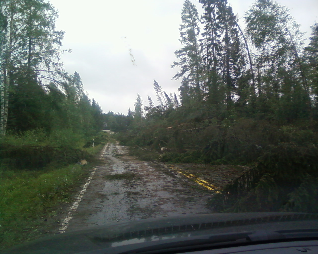 Thunderstorm Asta in Sulkava, Finland. View from Sulkava–Savonlinna road (regional road 435) on 30 July 2010 07:15.